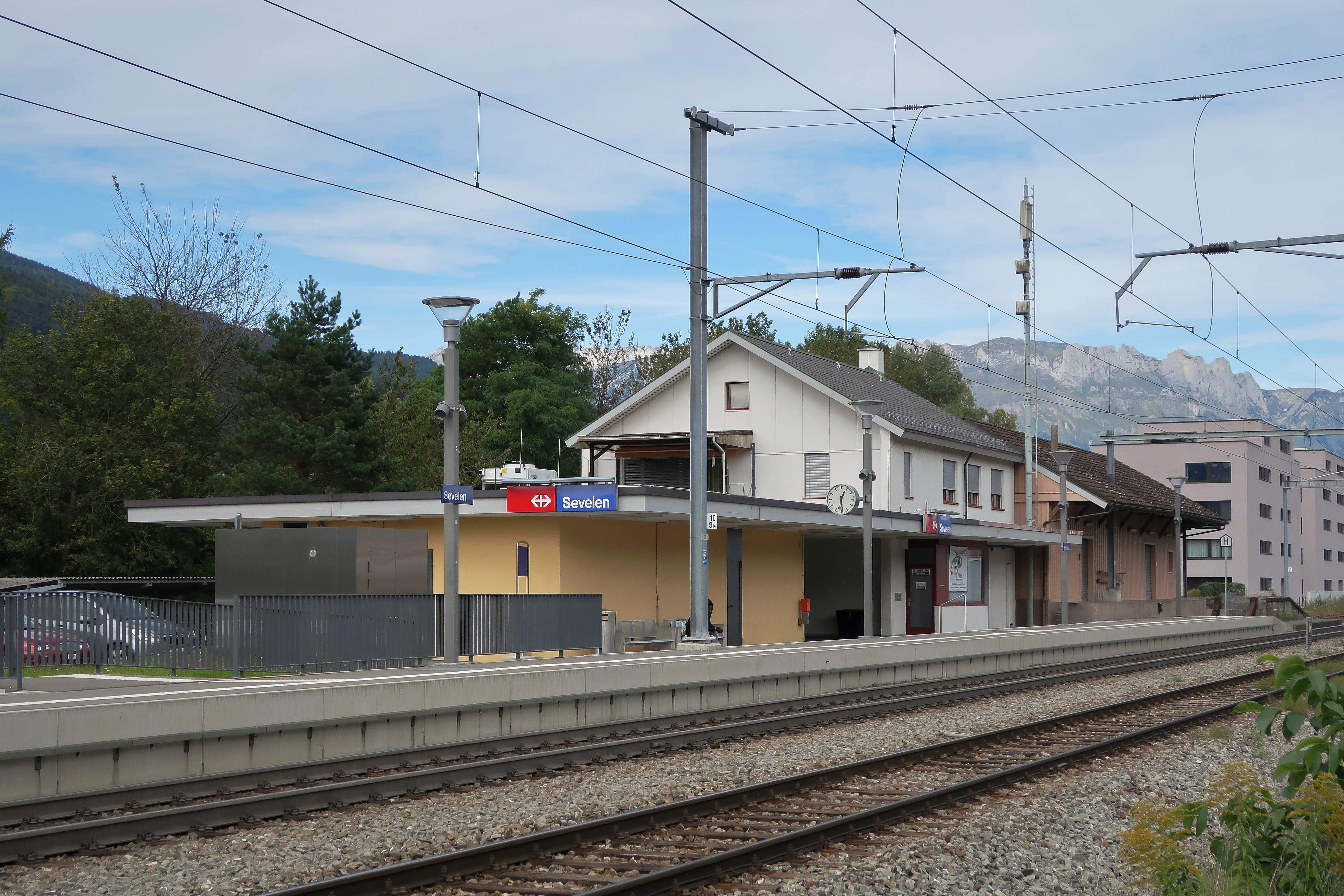 Sevelen station still looks the same today on the outside as it did in the early 1960s when it was new built. Switzerland, Sep 27, 2019. (5/7)